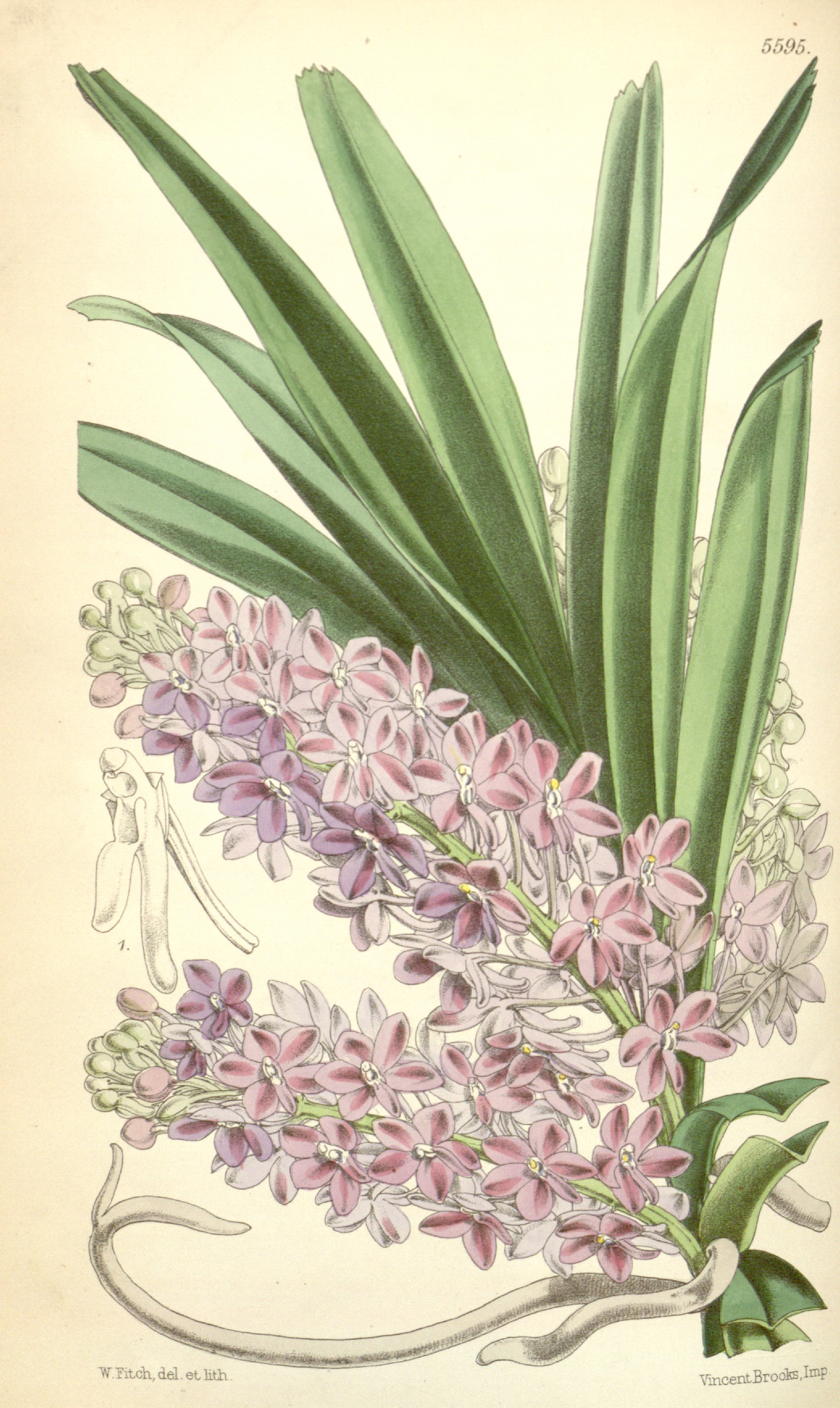 Illustration of Ascocentrum ampullaceum (as syn. Saccolabium ampullaceum)